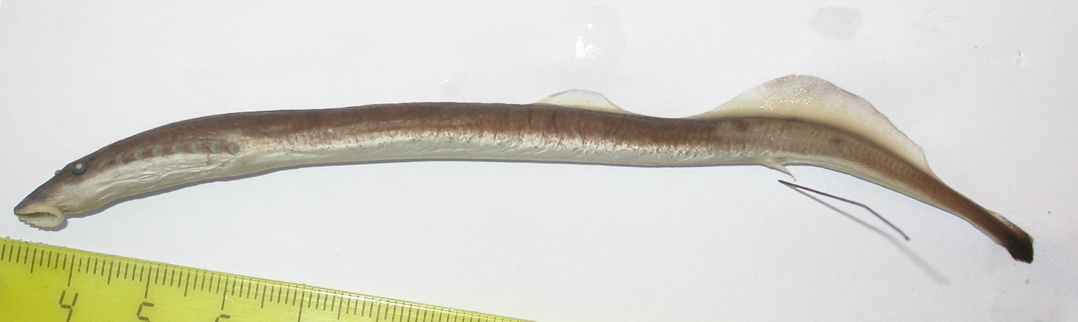 Ukrainian brook lamprey, Eudontomyzon mariae, introduced to the Volga River